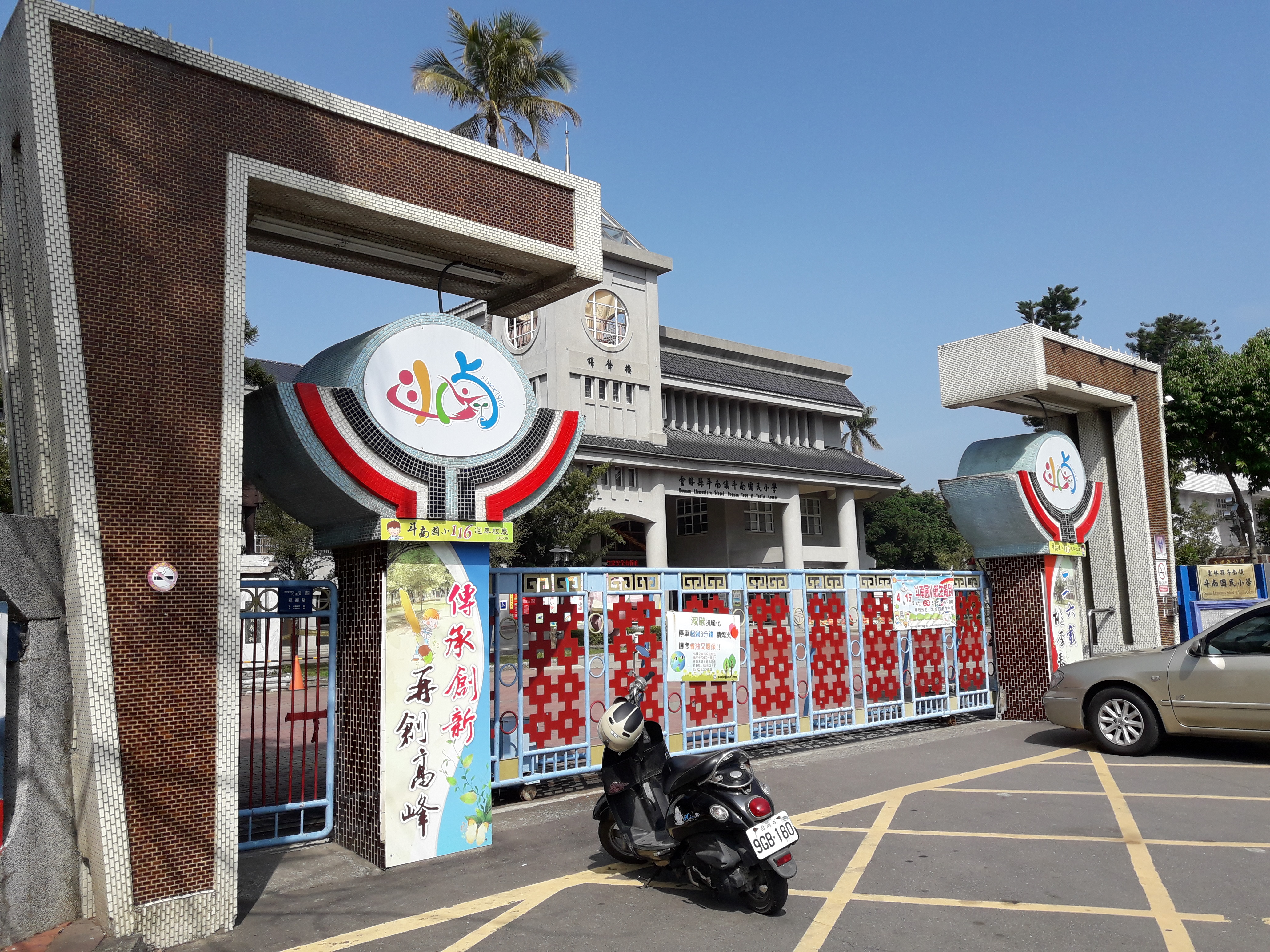 The school gate of the Dounan Elementary School in Dounan Township, Yunlin County, Taiwan.